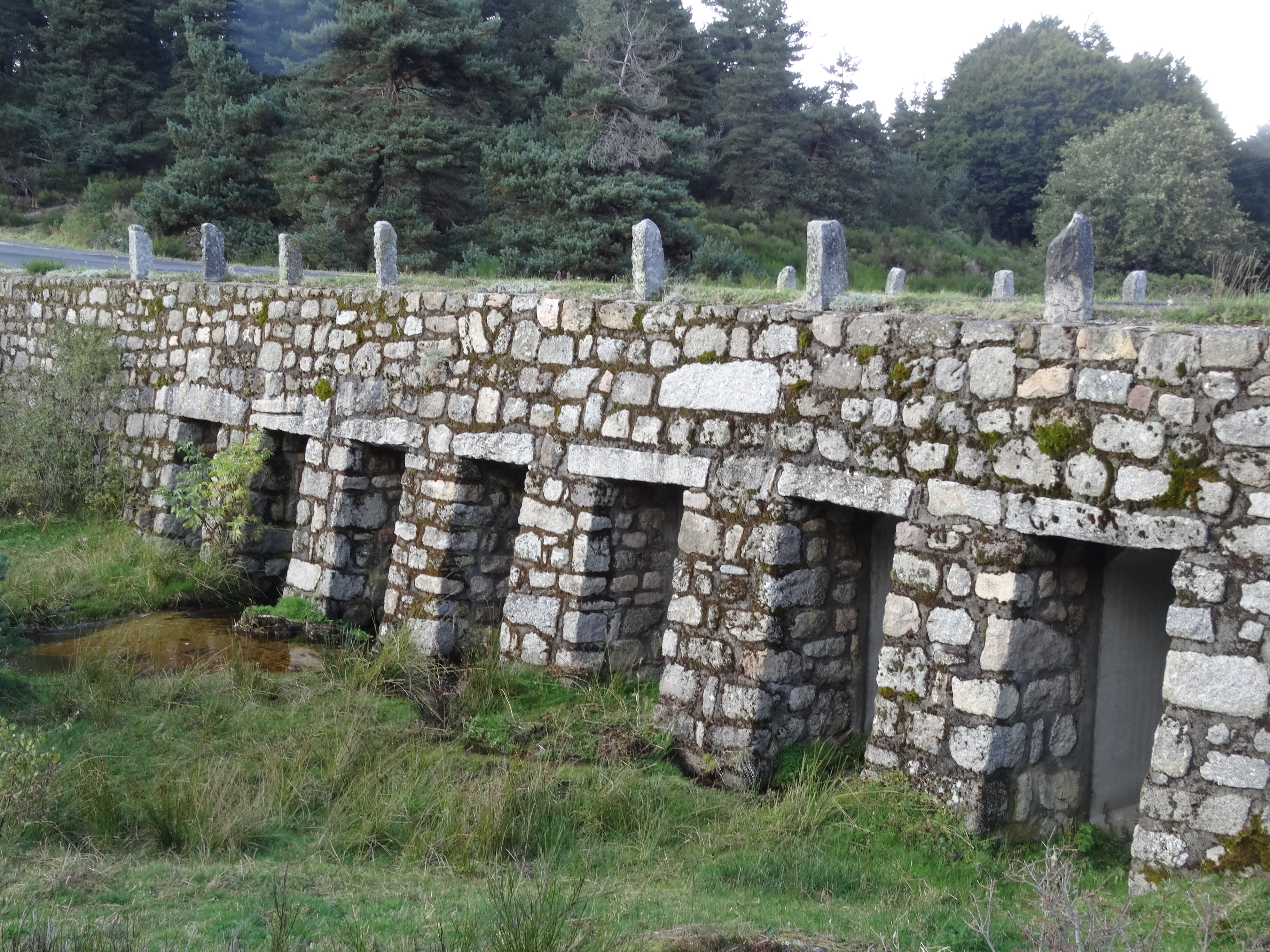 Seven Holes Bridge -Saint Paul le Froid -Margeride -Lozère